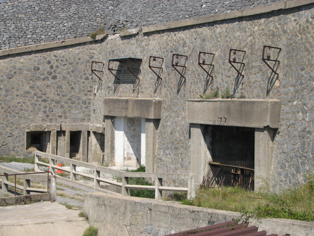 Entrance and bridge of the Maginot Line Work of Rimplas (Alpes-Maritimes)